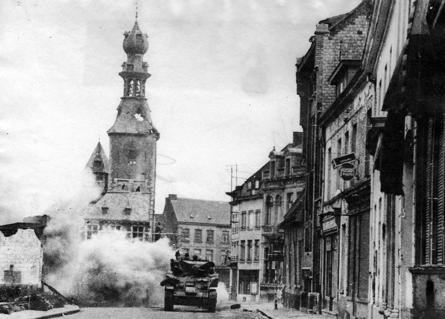 Polish tank of 1st Armoured Division (under command of Gen.Stanisław Maczek) in action (Tielt, Belgium)